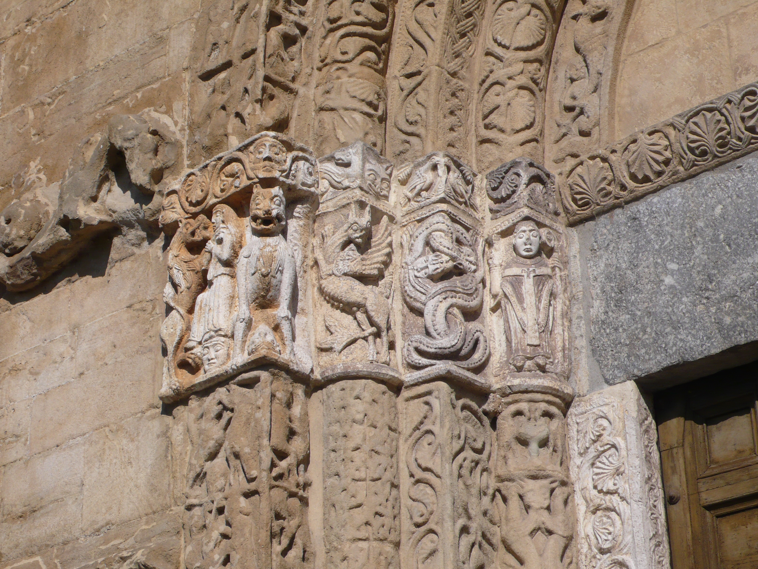 Detail from the main portal of the Church of San Michele in Pavia, Italy.